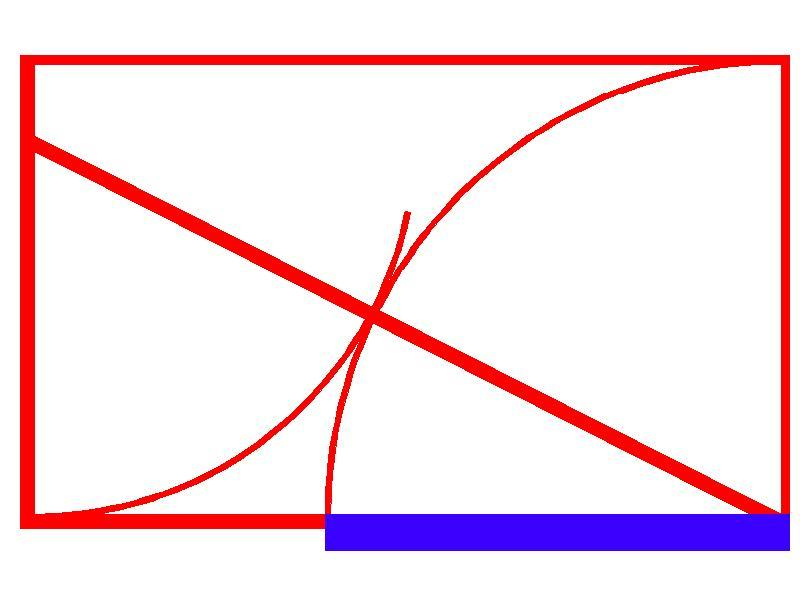 AMC - Andrzej M. Chołdzyński studio logo